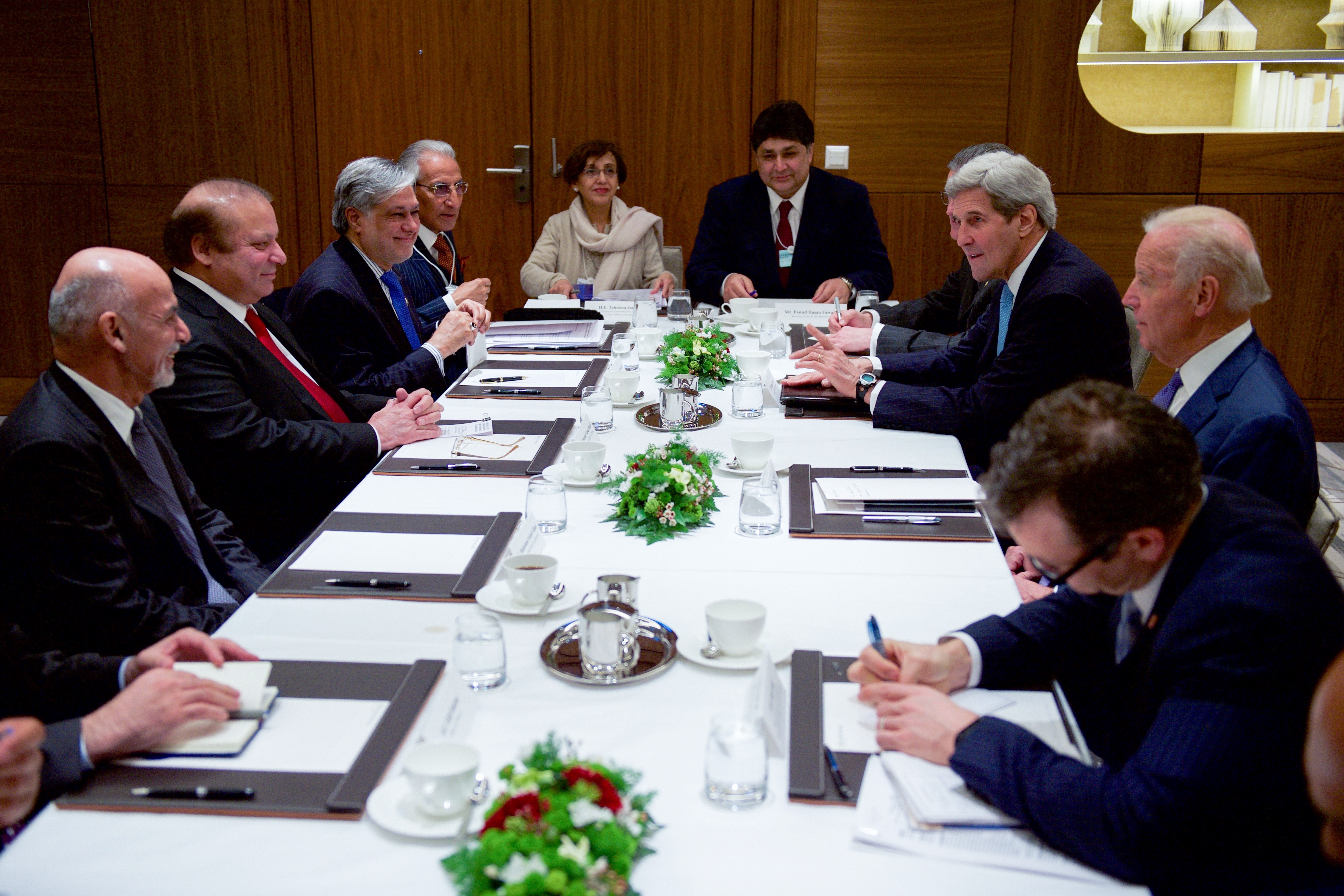 U.S. Secretary of State John Kerry addresses Afghanistan President Ashram Ghani and Pakistan Prime Minister Nawaz Sharif on January 21, 2016, at the Intercontinental Hotel in Davos, Switzerland, before a trilateral meeting between them and Vice President Joe Biden on the sidelines of the World Economic Forum [State Department Photo/Public Domain]